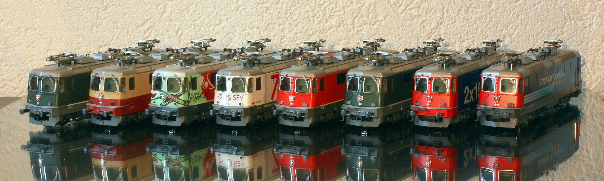 8 HAG models SBB Re 4/4 II